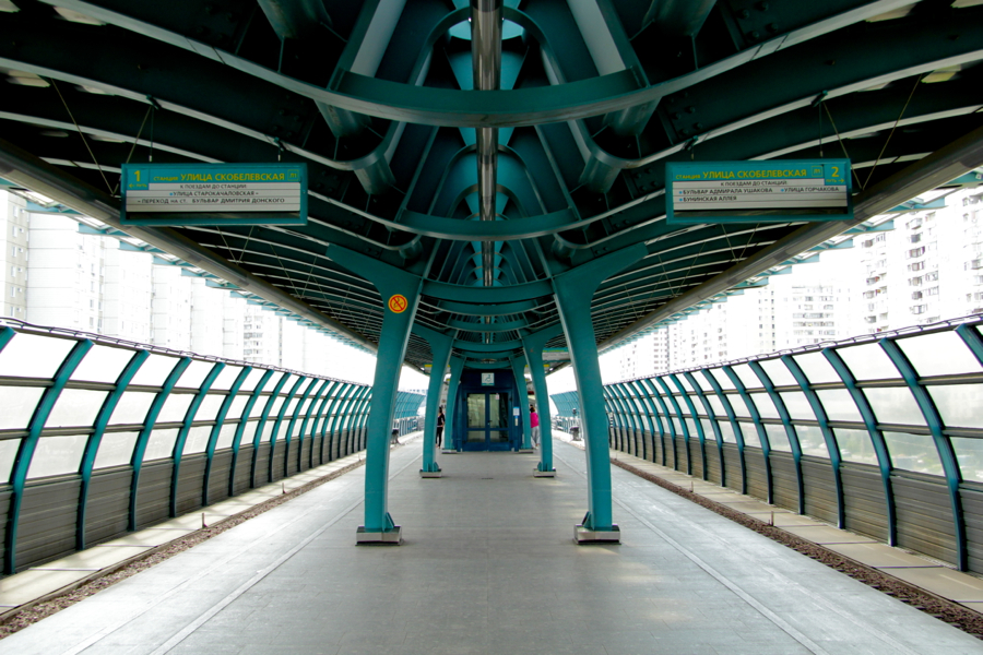 Ulitsa Skobelevskaya station in 2011.